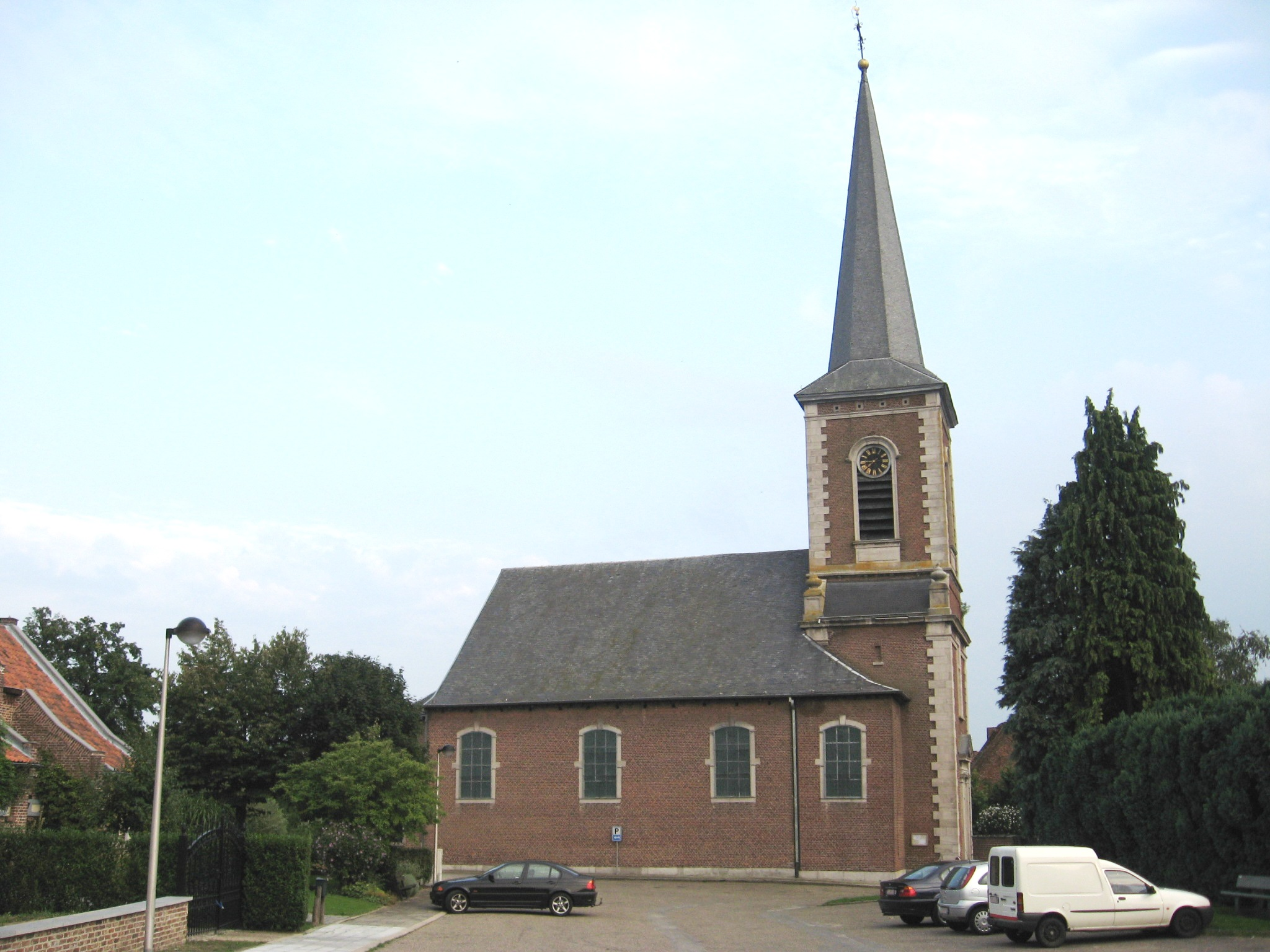 Church of Saint Quentin in Gelinden, Sint-Truiden, Limburg, Belgium